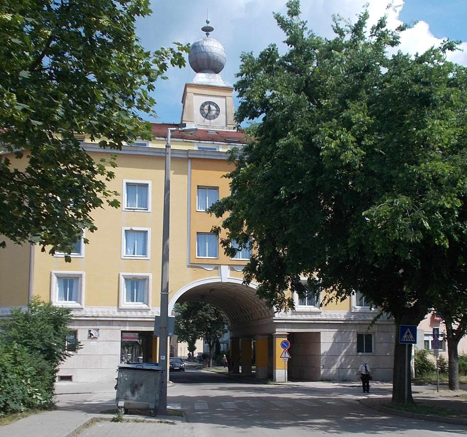 Citygate former library, workers hostel?, part of Fürst Sándor street listed complex. - Fürst Sándor street, Oroszlány, Komárom-Esztergom County.